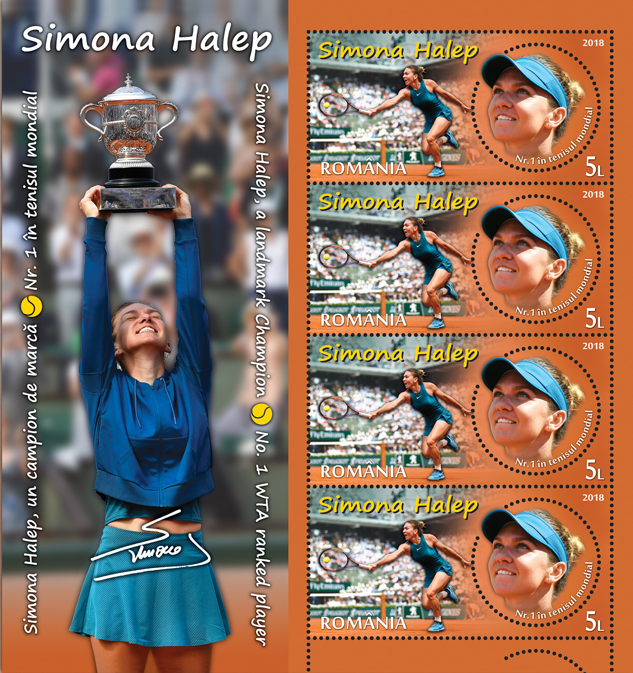 SIMONA HALEP, A LANDMARK CHAMPION